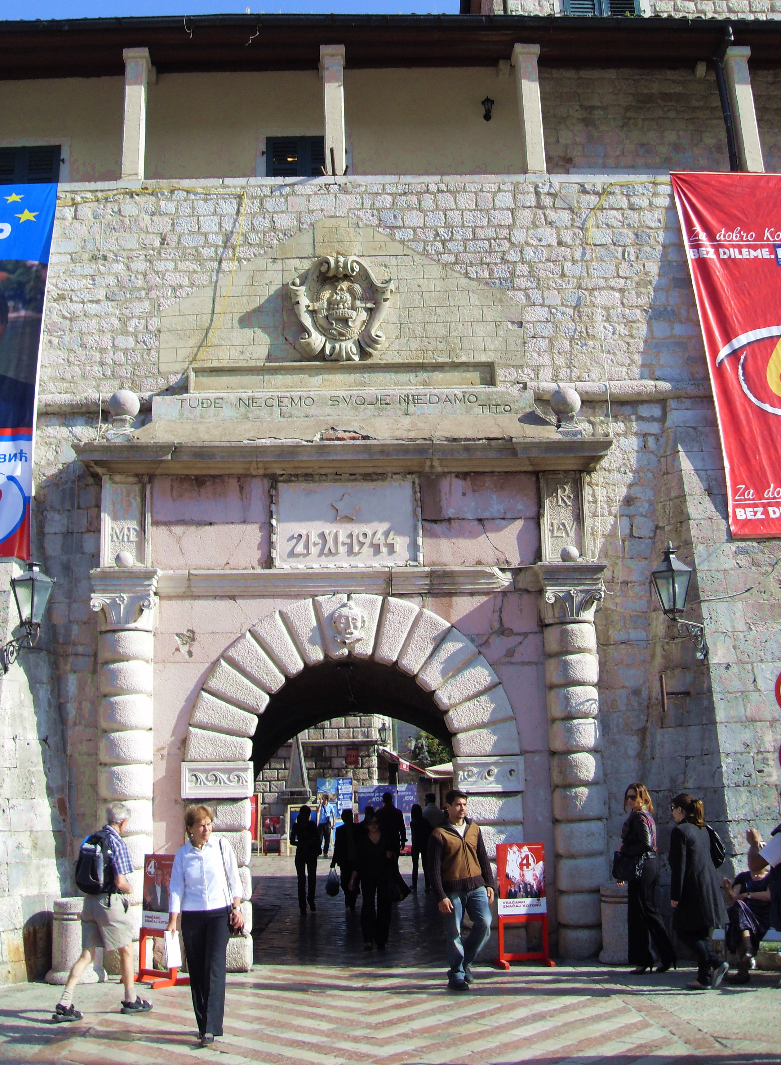 Sea Gate, Kotor; inscription indicates date of liberation in WWII